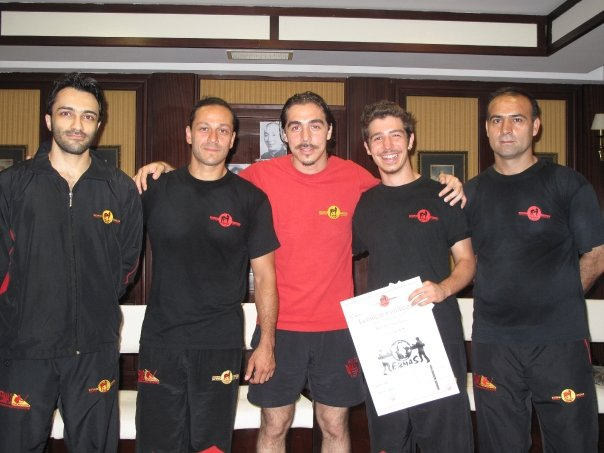 Sifu Cemil congratulating four new Sifus (left to right : Amir Foroohandeh (EBMAS Dubai, the UAE), Nehar Eren (EBMAS Ankara), Sifu Cemil, Berat Uylukçu (EBMAS Izmir), Hossein Ghorbankhanlou (EBMAS Iran)).